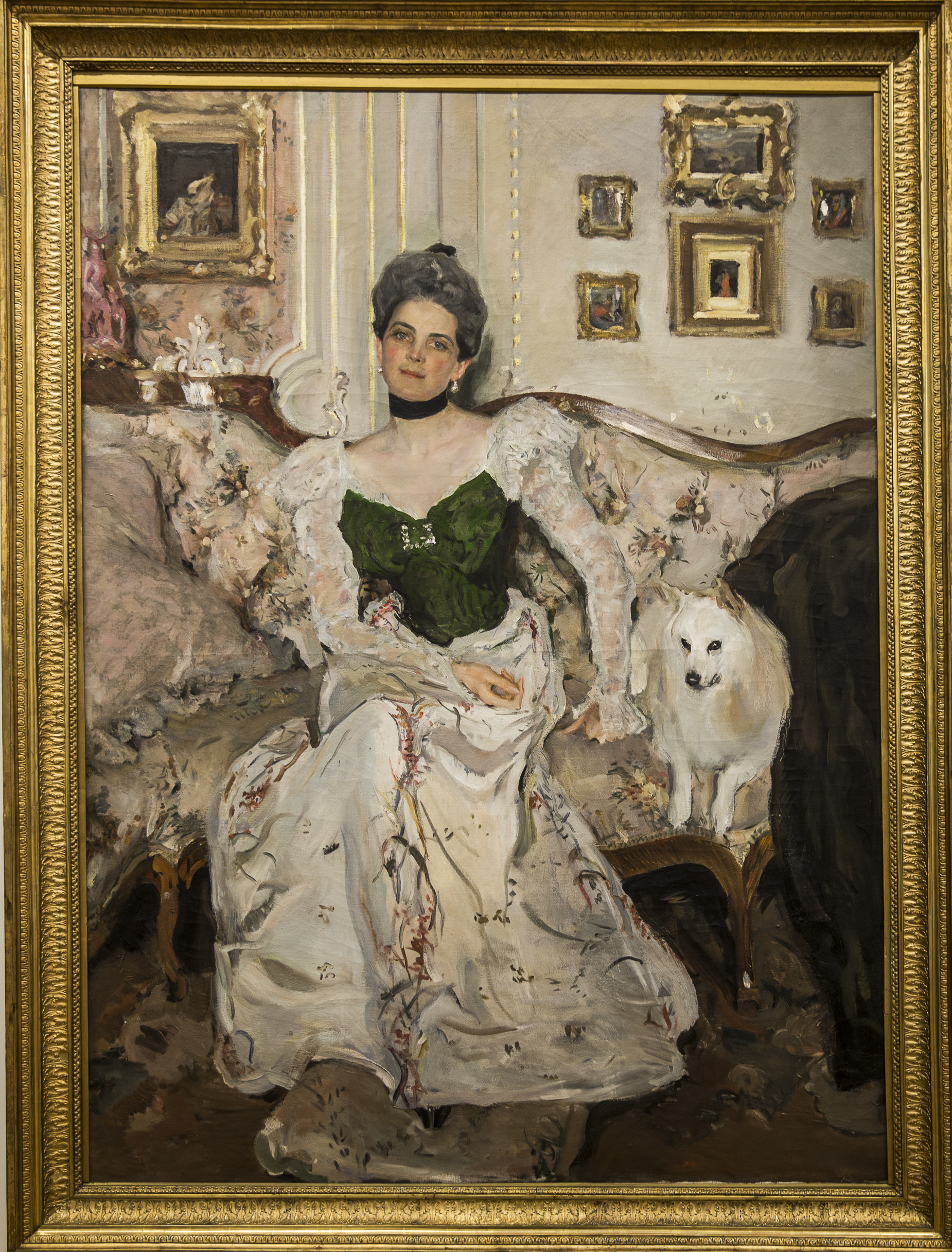 Portrait of Princess Zinaida Yusupova